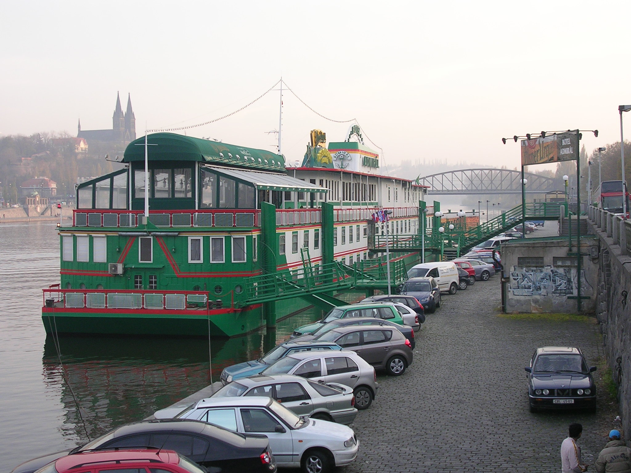 Smíchov, Prague. Botel Admiral.